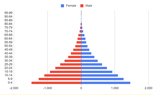 Tšaadi rahvastikupüramiid